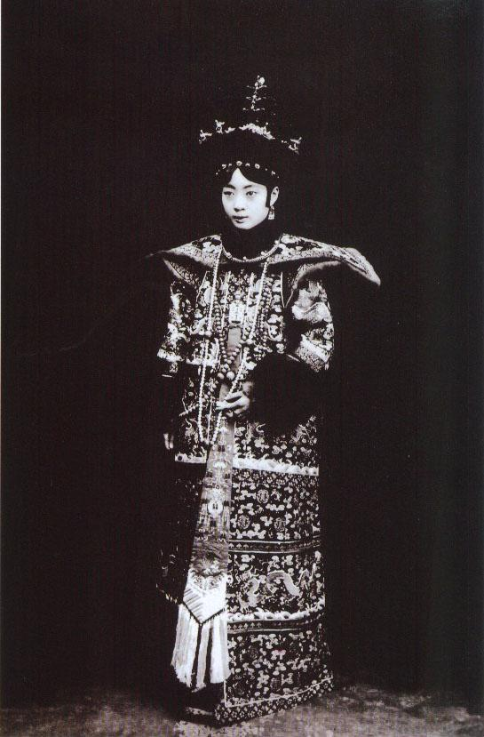 Photograph of the Qing Dynasty Empress Gobele Wan-Rong of XuanTong.